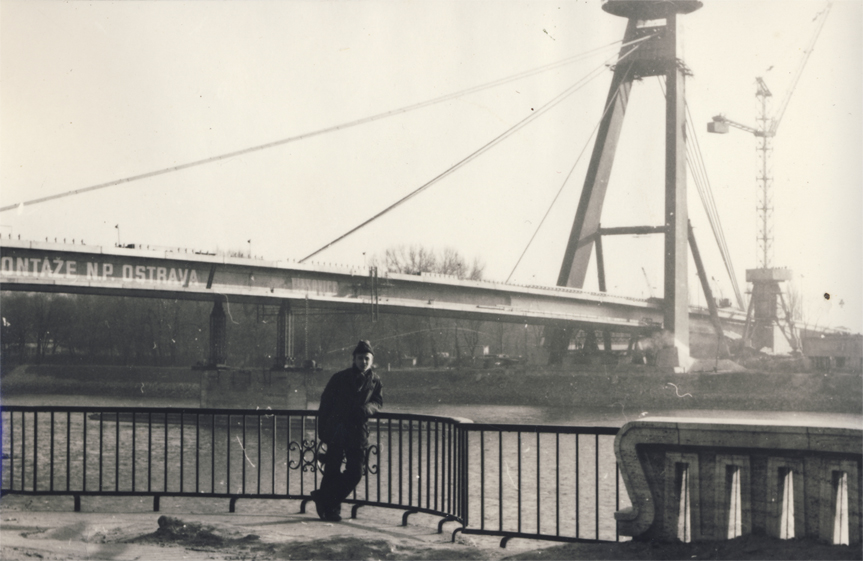 Bridge SNP or New bridge in Bratislava under construction (1972)